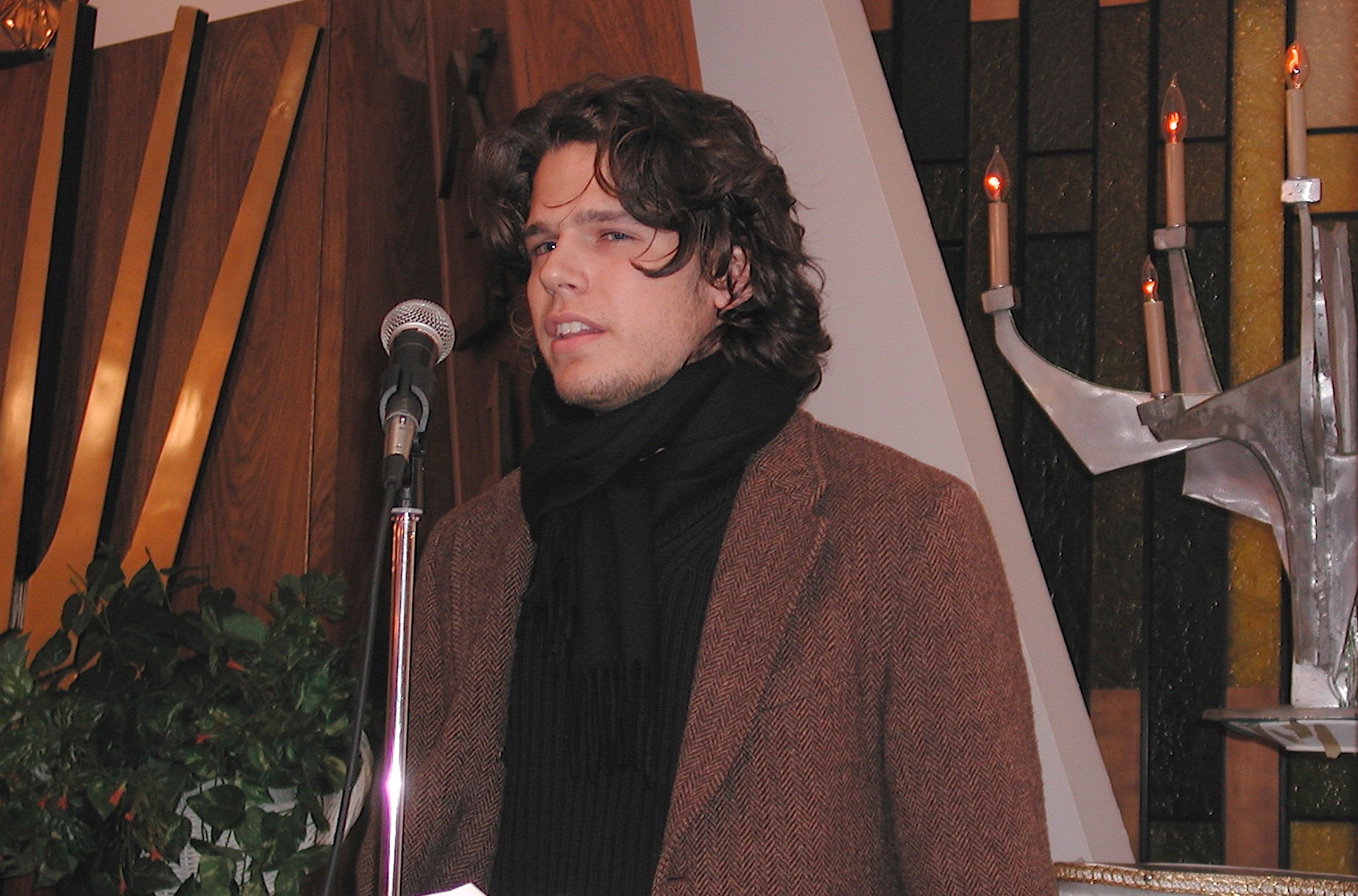 Director Anthony Green Speaking at the Special Screeing of "Pigeon", Sunday, Jan. 9, 2005 at Congregation Habonim in Toronto (Photo Credit: Eli Rubenstein)